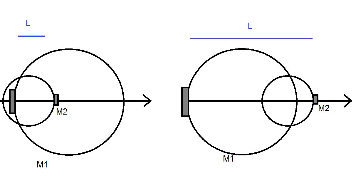 Conditions of stability for a laser cavity